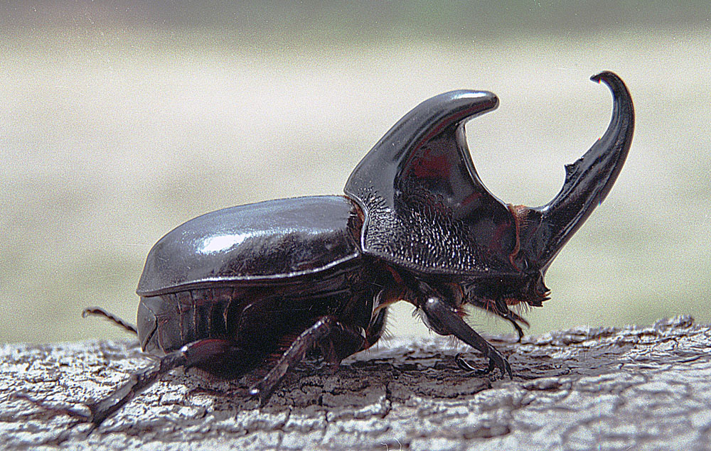 Known as the Asiatic Rhinocerus Beetle, native to southeast Asia. The horn is used to knock rival males out of trees. Photo from Sumatra. In context at